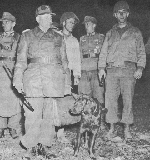 Hermann-Bernhard Ramcke after being captured by US Army forces on 19 September 1944